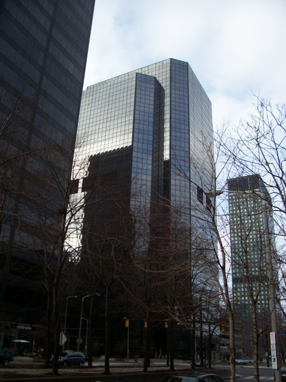 Eaton Center.